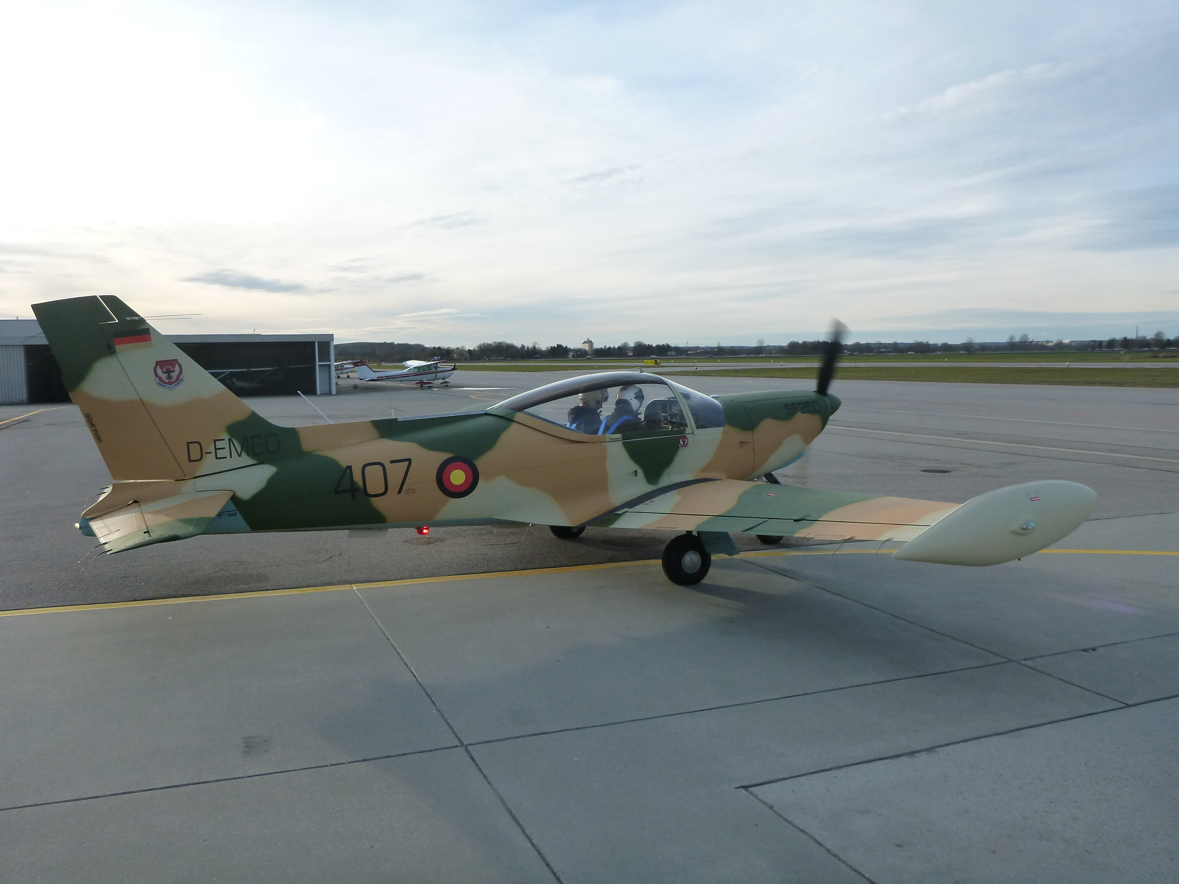 Former Libyan Air Force SF-260WL. After demilitarization, this plane is privately operated in Germany.